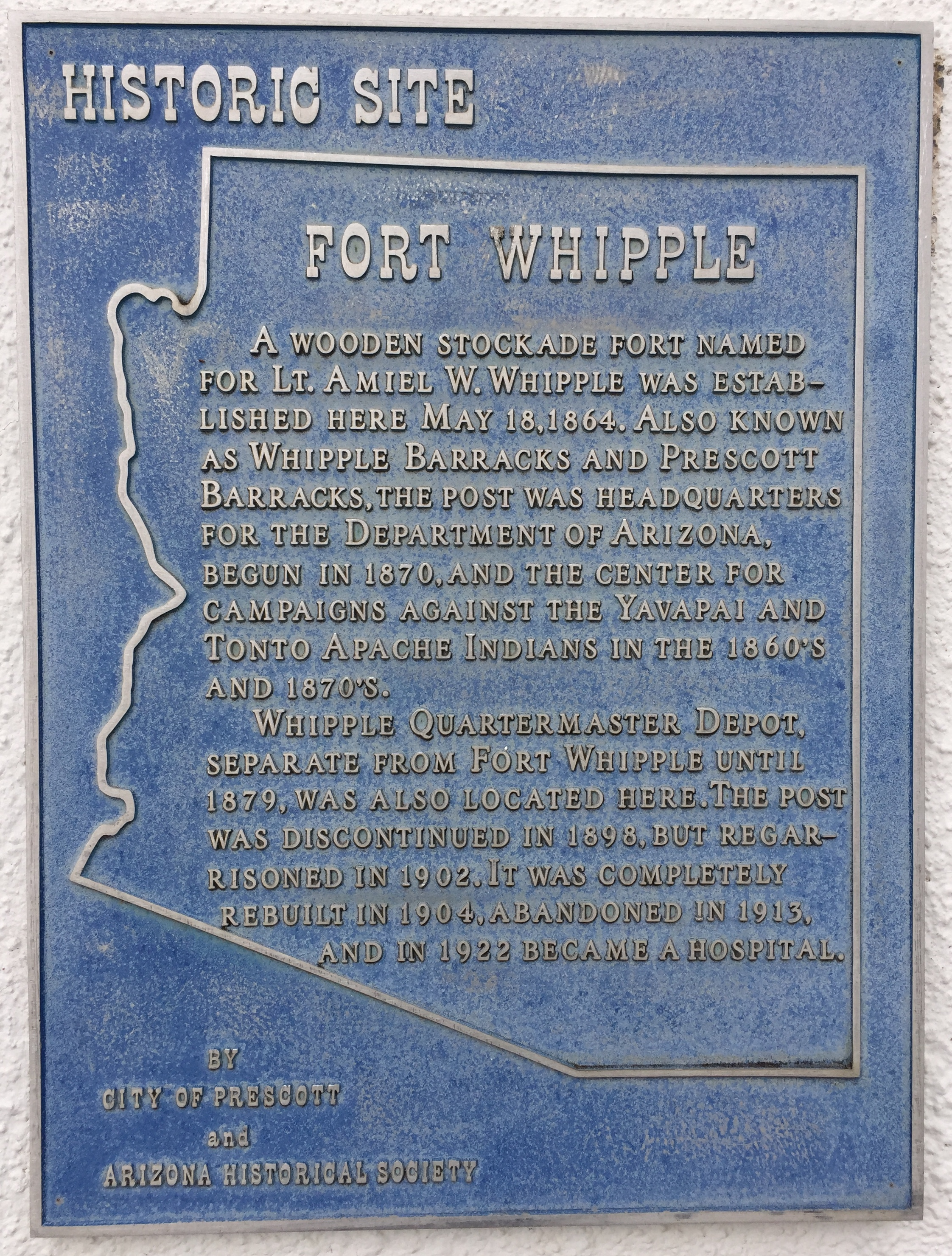 A historical plaque about Fort Whipple in Prescott, Arizona. The plaque is located on the grounds of the current Department of Veterans Affairs healthcare organization, the Northern Arizona VA Health Care System (NAVAHCS).